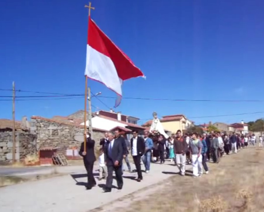 Pendón de Navamorales. Foto de 2008